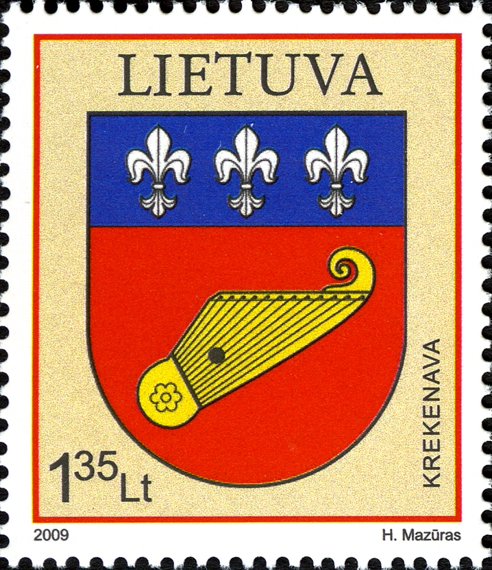 Coats of Arms. Date of issue: 21st February 2009. Designer: No 1000 - H. Mazuras; No 1001 - J. Galkus; No 1002 - A. Kazdailis Paper: chalky Printing process: offset Perforation:comb 14 Size ofa stamp: 30 x 34,50 mm. Sheet composition: 50 (10 x 5) stamps Printing run: 500.000 Michel cataloguenumbers: 1000-1002 1.35 L. multicoloured. Coat of arms of Krekenava.